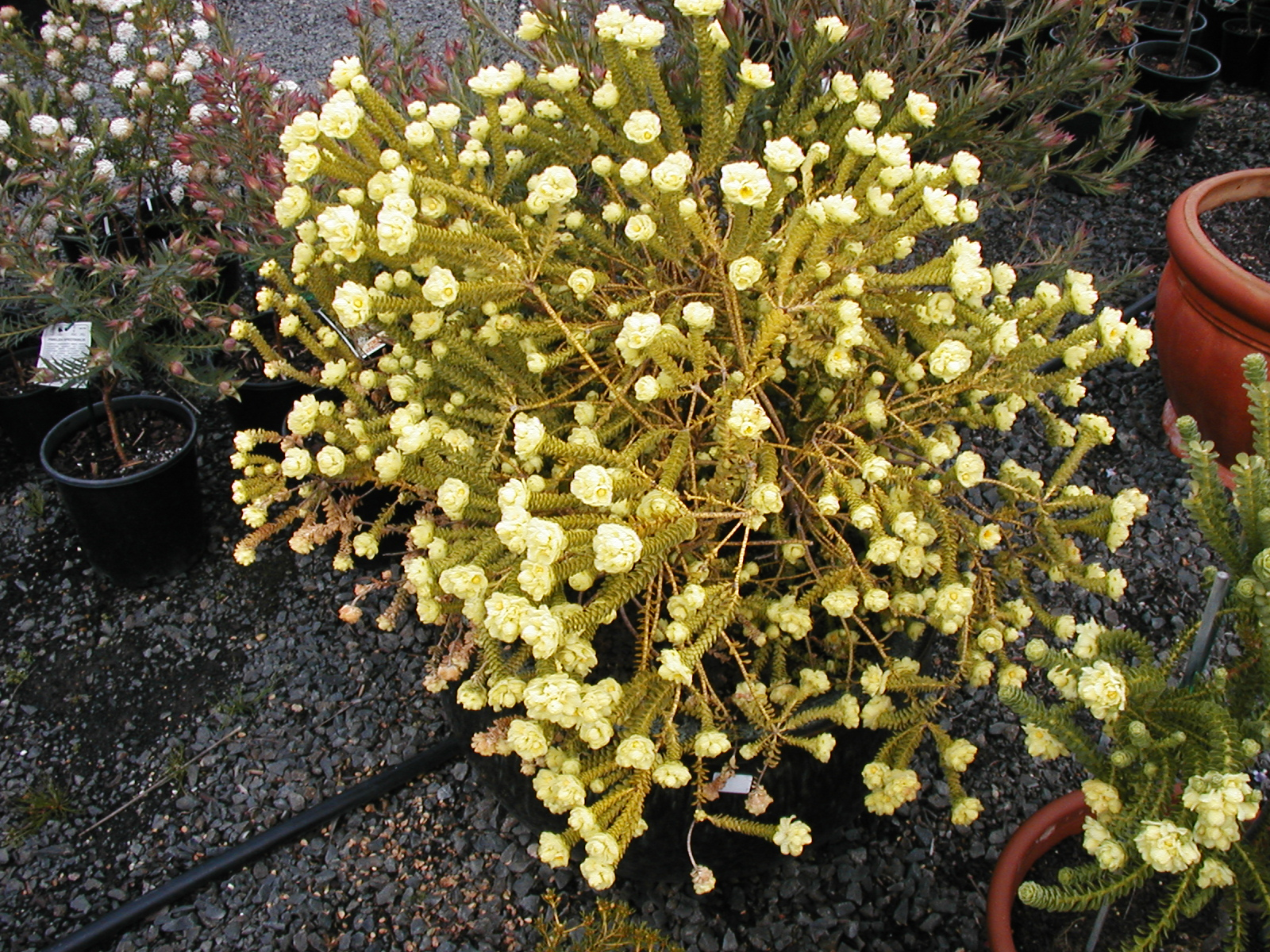 Grafted specimen of Geleznowia verrucosa at Phil Vaughan's nursery